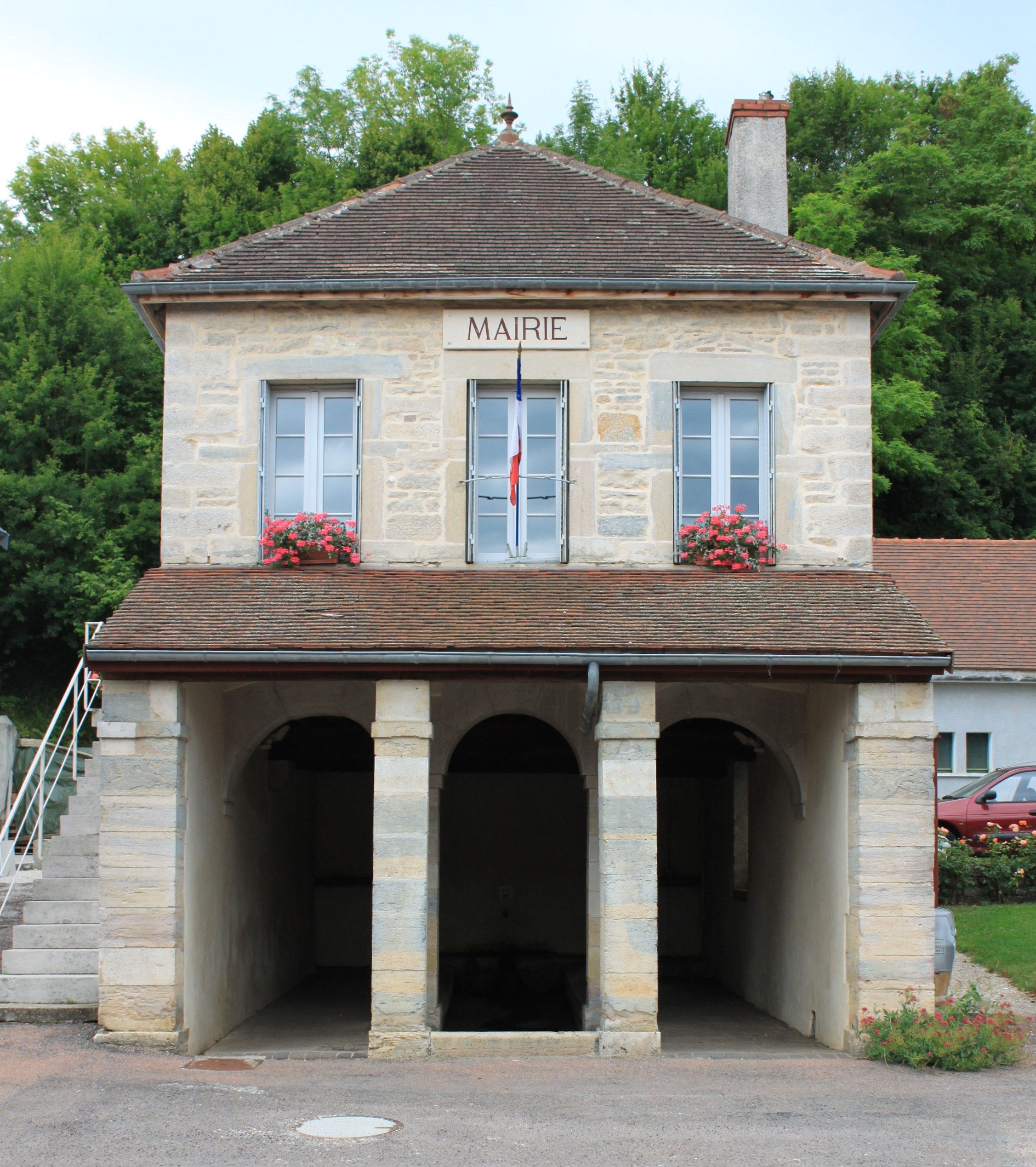 Town hall - washhouse of Reulle-Vergy, Côte-d'Or, Bourgogne, France